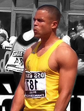 Caimin Douglas at dutch championships 2007, Amsterdam, start 100m (cropped and edited)